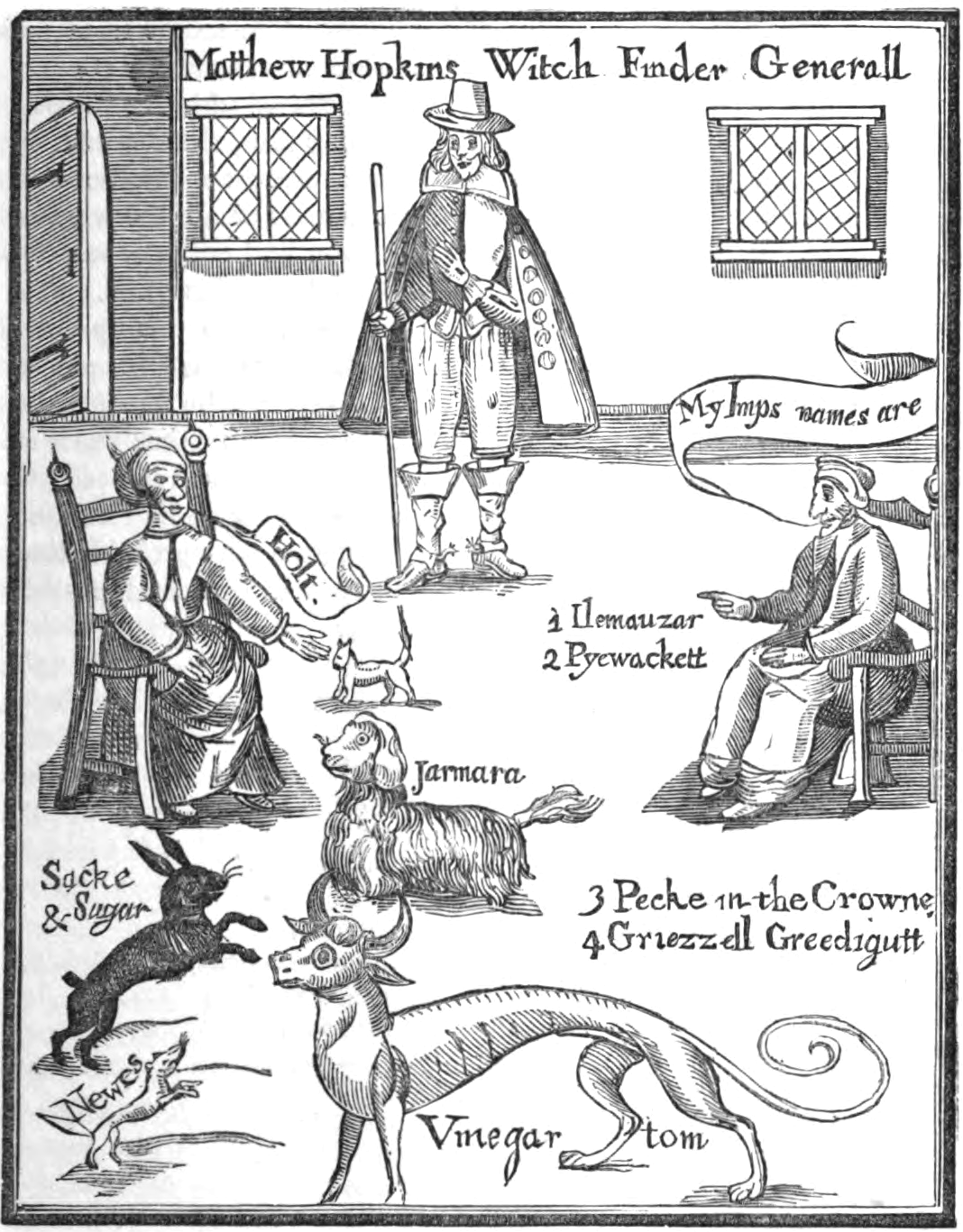 Matthew Hopkins, Witch Finder General. From a broadside published by Hopkins before 1650.